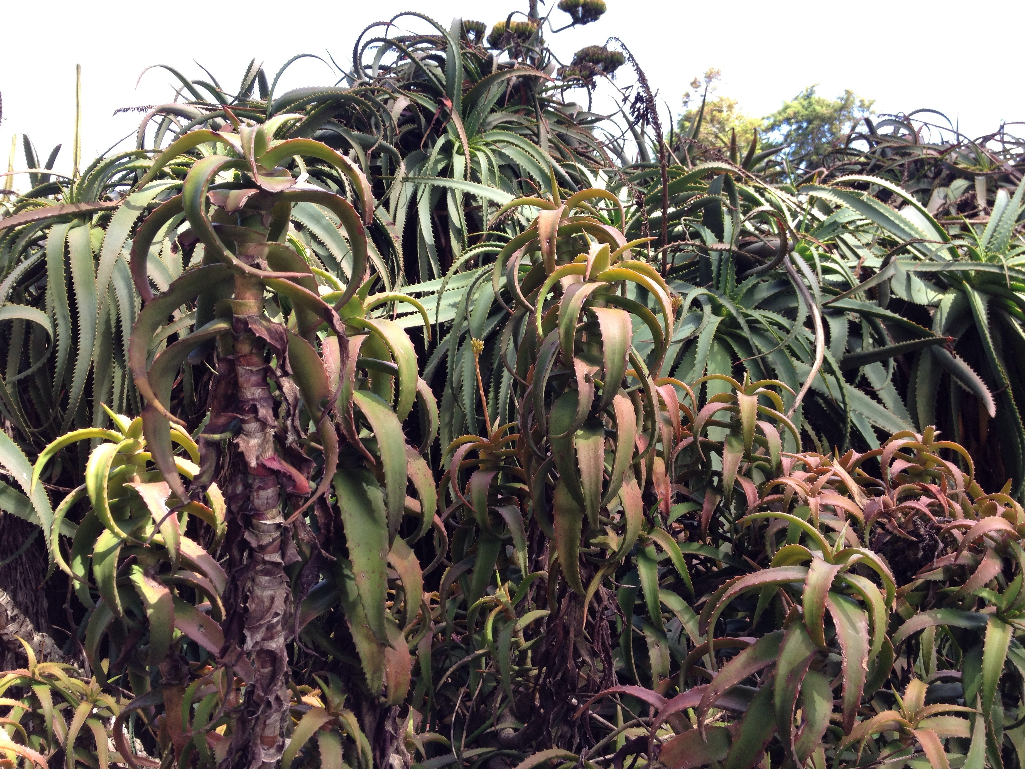 The kedongensis are in front with the red coloration - grown here to approx 4.5 ft tall